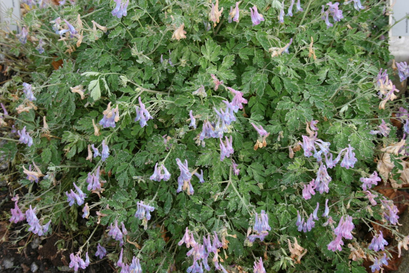 Corydalis cashmeriana: Habit.